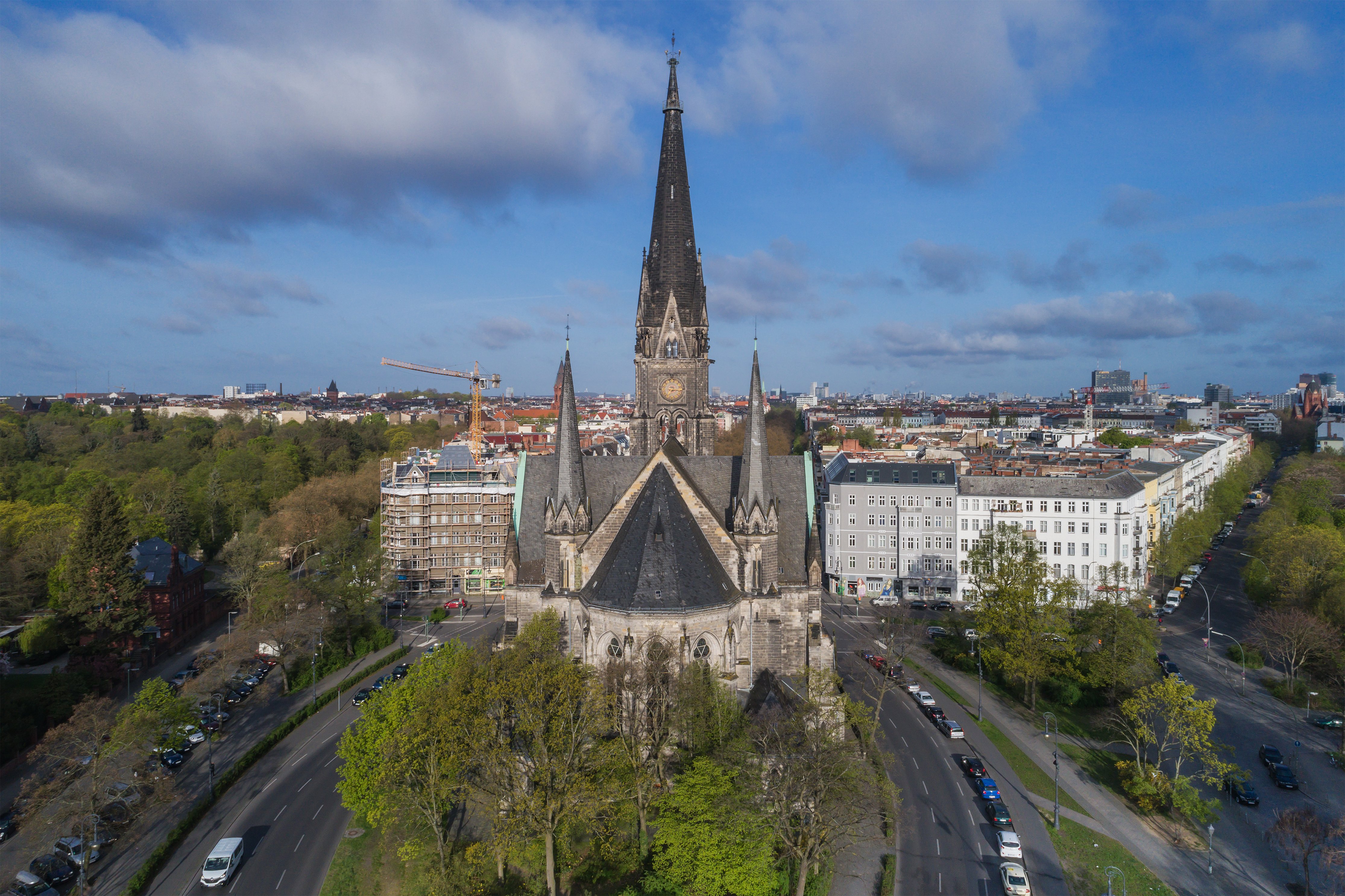 Südstern Church in Berlin (Germany)